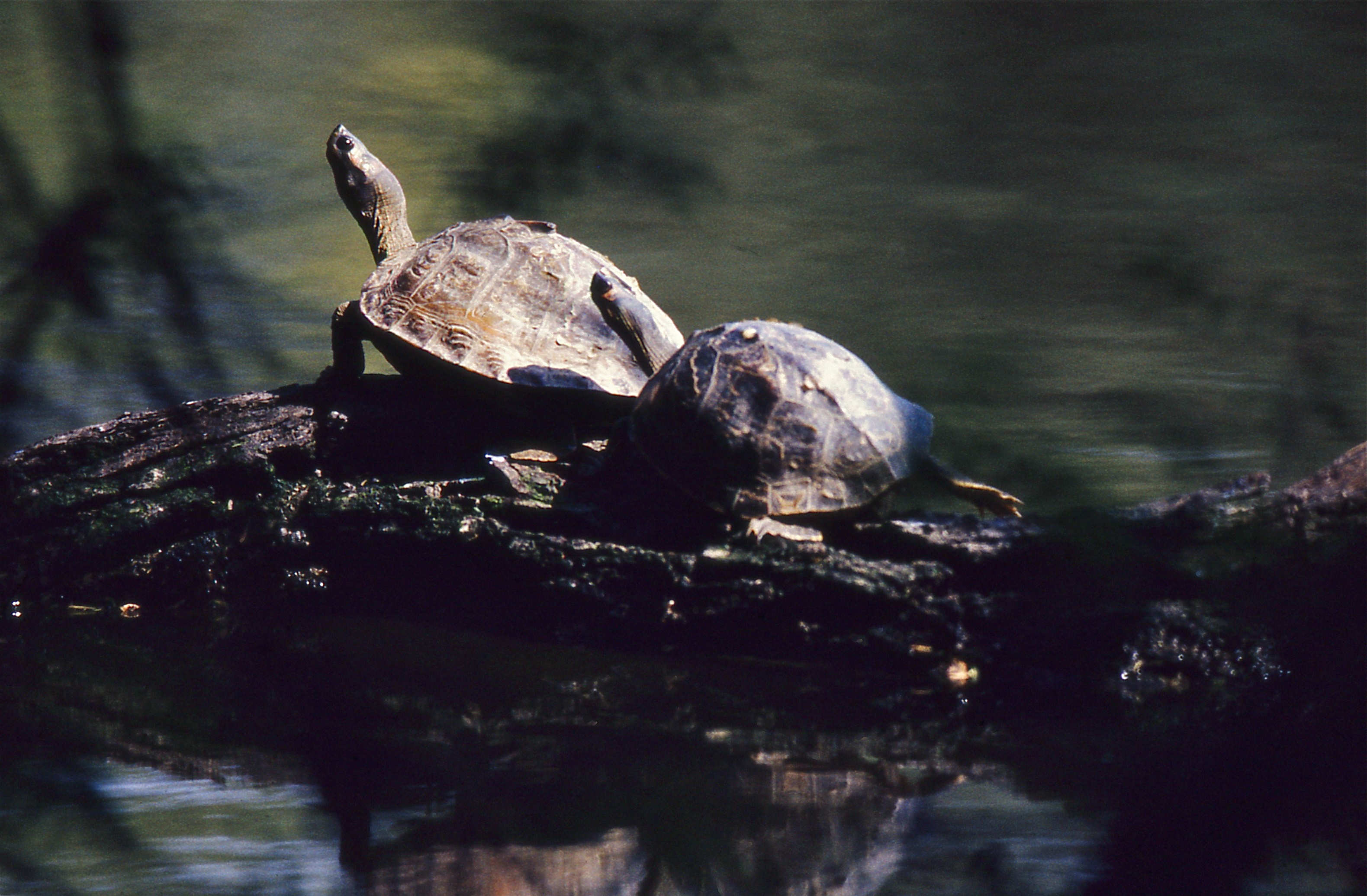 Keoladeo Ghana NP, Bharatpur, Rajasthan, INDIA Scanned Slide from February 1994